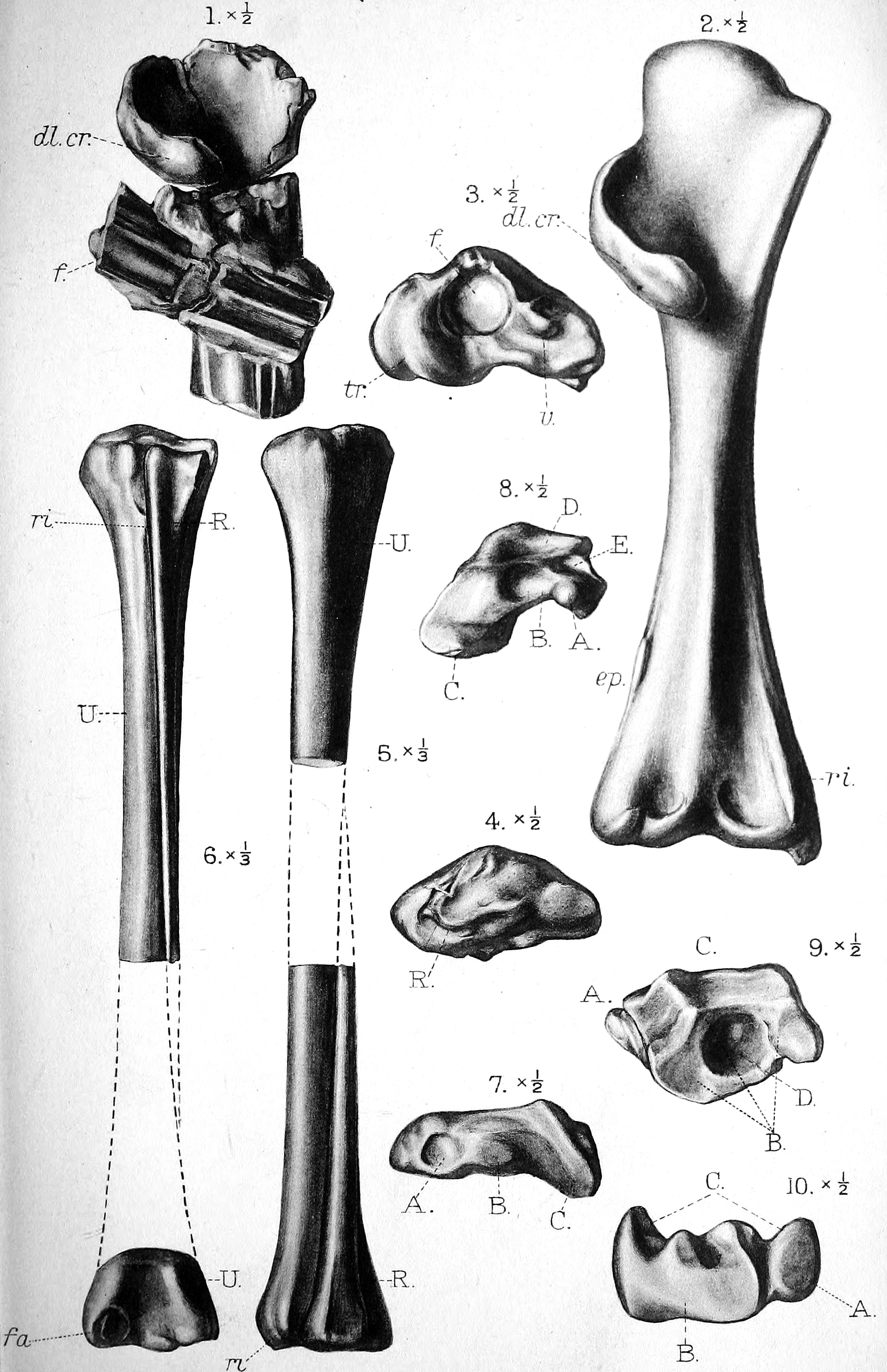 Title: The Quarterly journal of the Geological Society of London Year: 1845 (1840s) Authors: Geological Society of London Subjects: Geology Publisher: London (etc.) Text Appearing Before Image: G. M. Woodward, del. Bemrose.Collo Derby ORNITHODESMUS LATIDENS. Quart. Journ. Geol. Soc. Vol. LXIX, PL.XXXIX.2.*± Text Appearing After Image: Q. M. Woodward, del ORNITHODESMUS LATIDENS. Bemrose.Collo., Derby. Quart Journ. Geol. Soc. Vol. LXIX, Pl.XL. l.xi see. 2 * W.mi 13! ph. Jit. s.h W.TTLC.